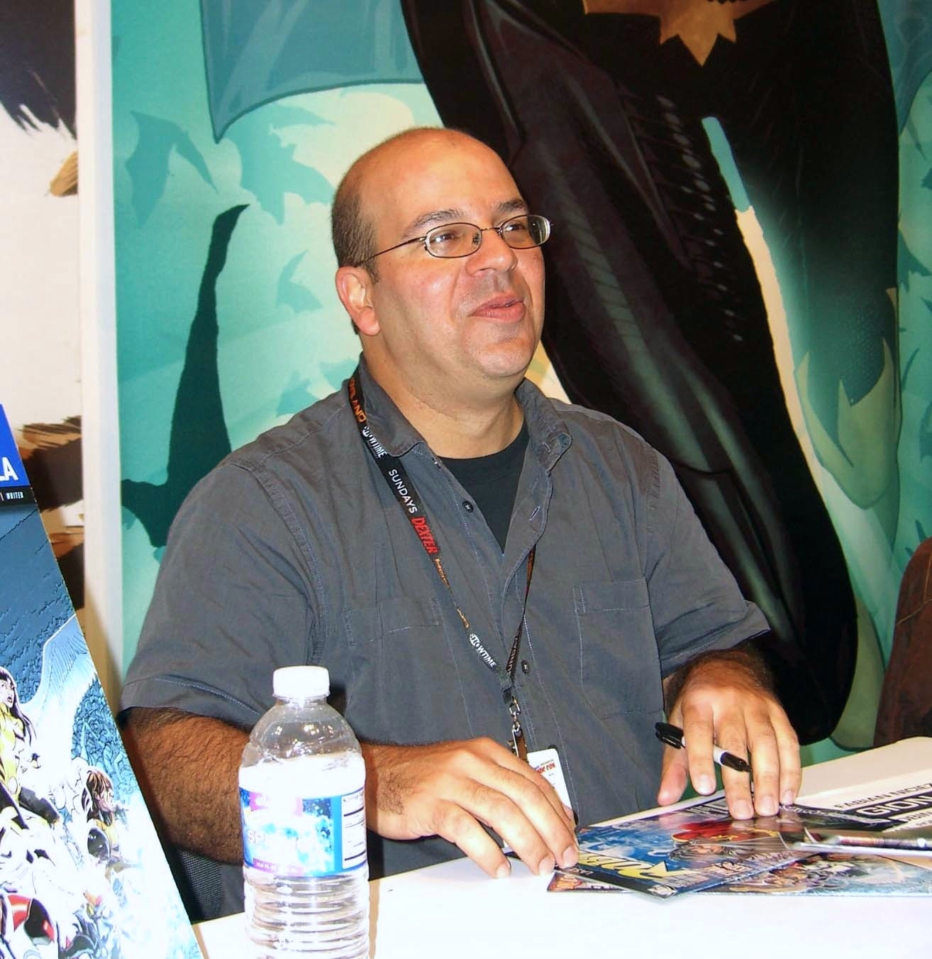 Comics creator Fabian Nicieza at the 2011 New York Comic Con, Friday, October 14, 2011. This photo was created by Luigi Novi. It is not in the public domain, and use of this file outside of the licensing terms is a copyright violation.